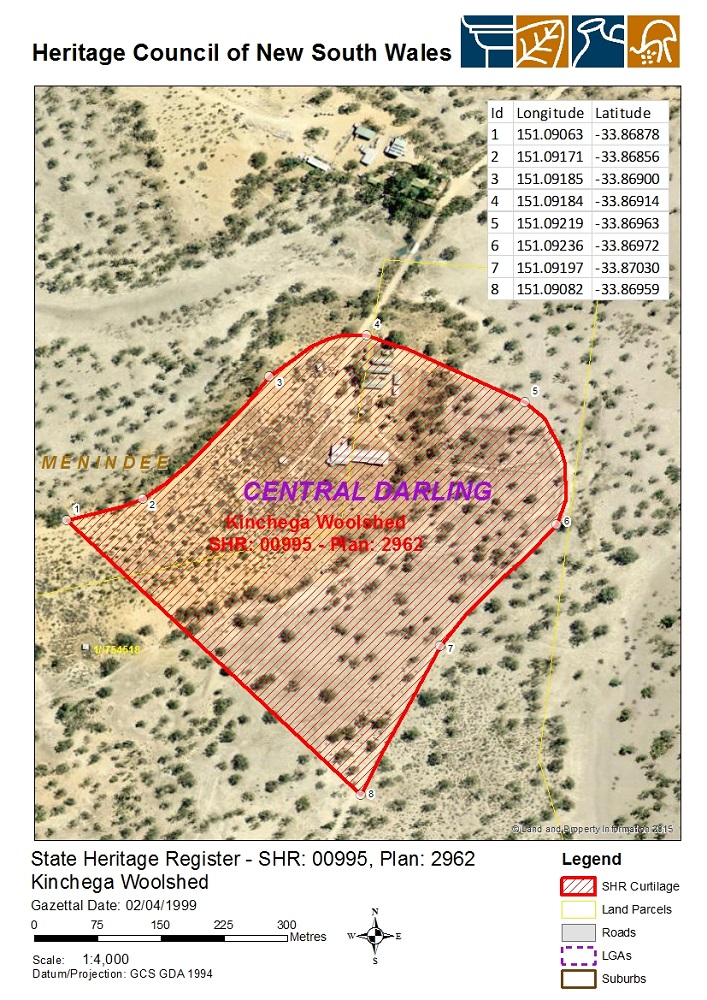 Kinchega Woolshed: SHR Plan No 2962